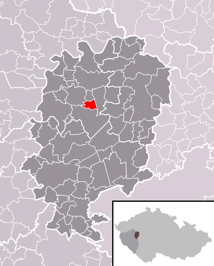 Location of Skomelno municipality within Rokycany District and within identical administrative area of Rokycany as a Municipality with Extended Competence.